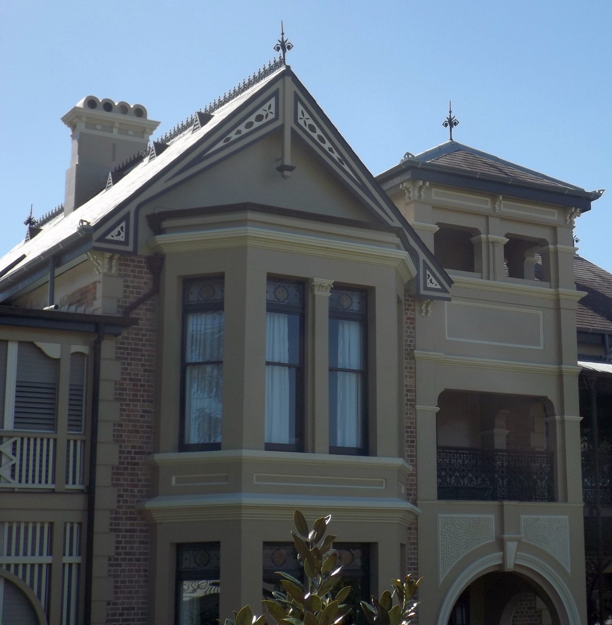 Photo of the front of Glengariff residence at Hendra, Brisbane, Queensland, Australia.